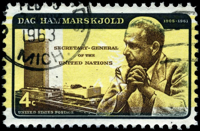 United States 4c Dag Hammarskjold memorial stamp of 1962 with inverted yellow